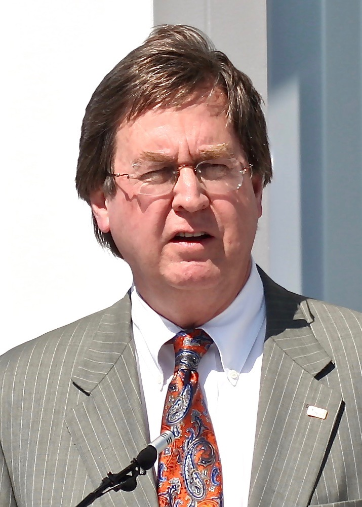 Tulsa Mayor Dewey Bartlett speaks at the opening of the city's first CNG pumping station.